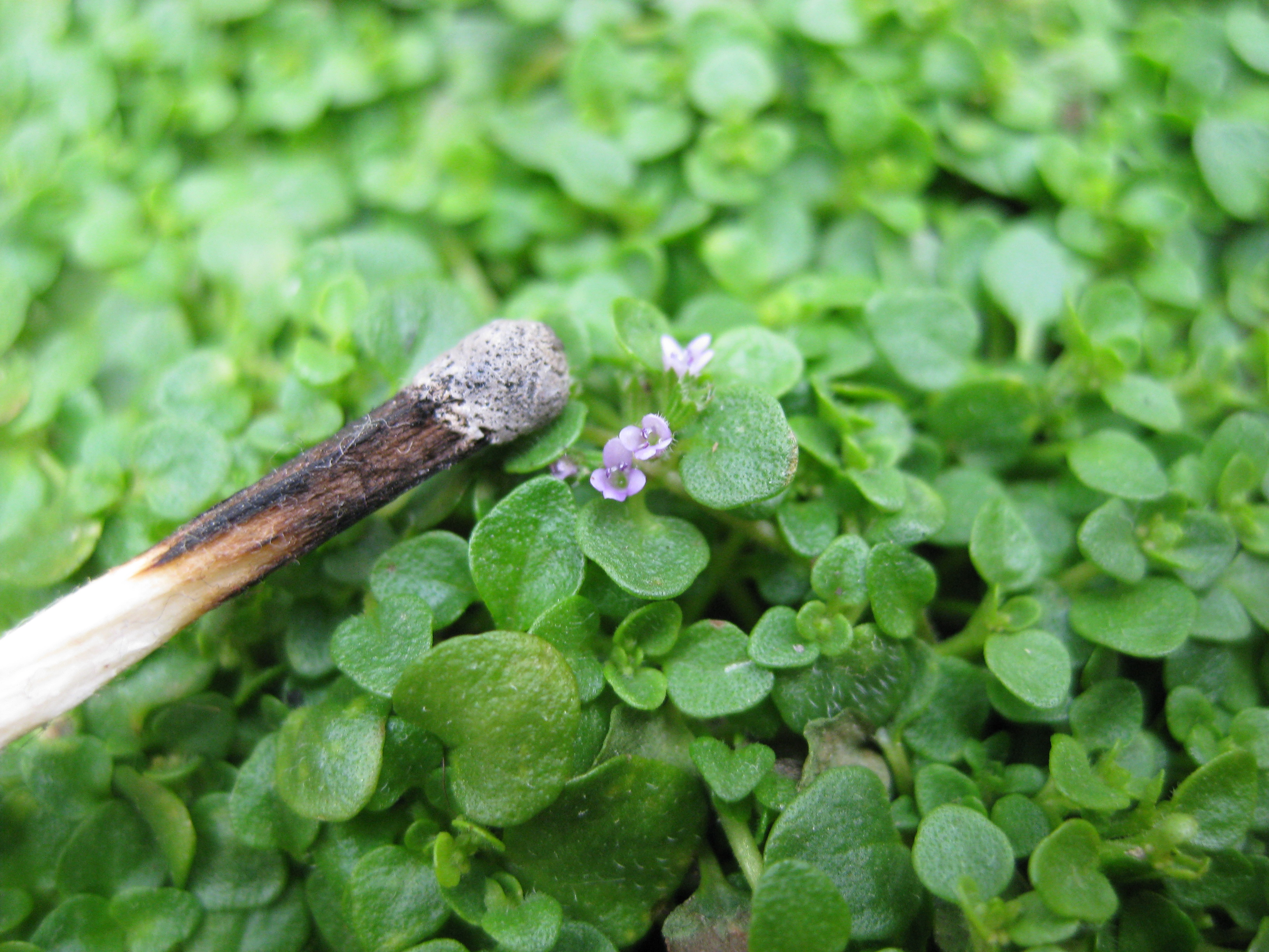 Blossom of M. requienii in comparison to a burnt match